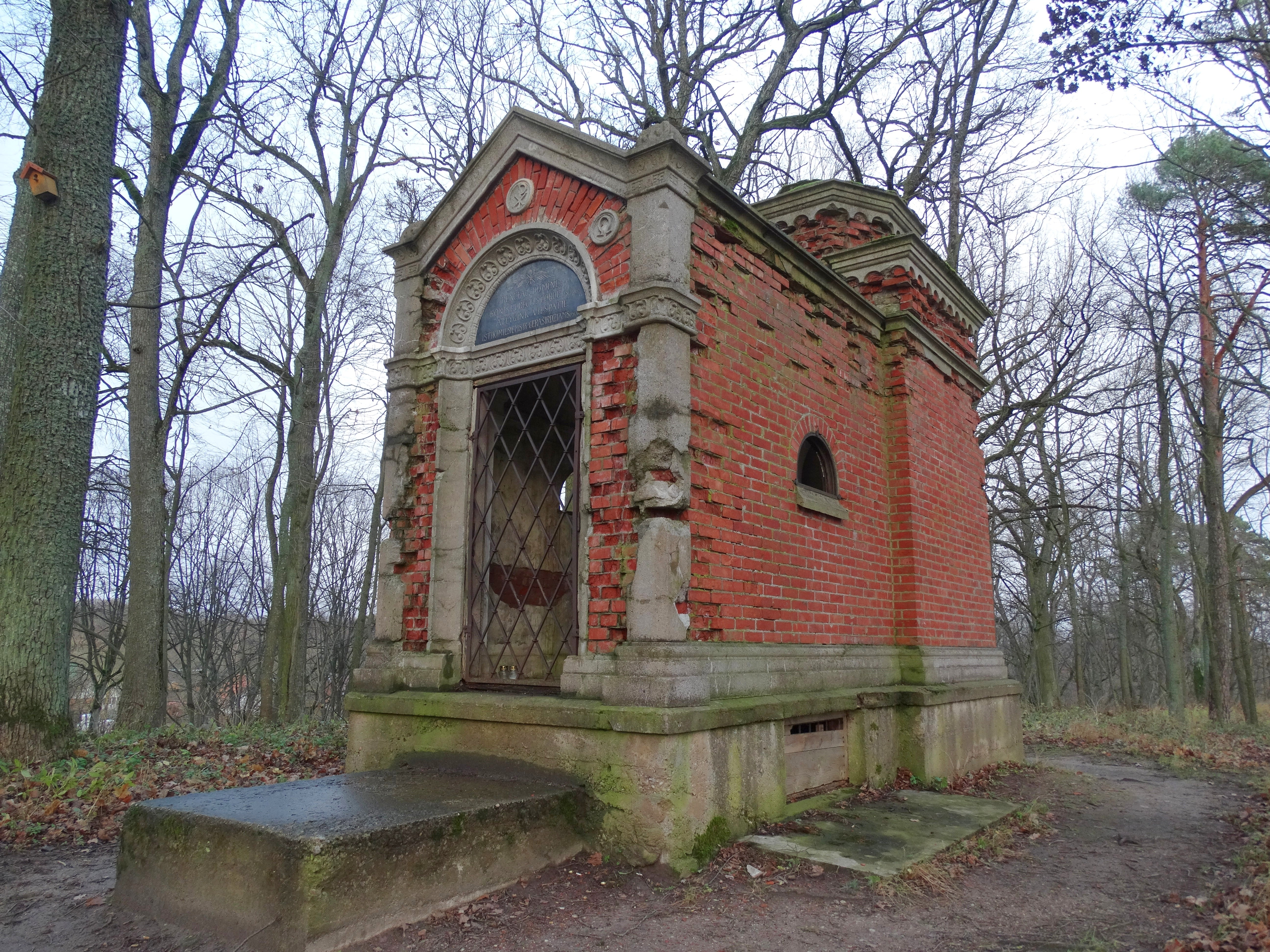 Burial chapel in Vytėnai (Pilis I), Jurbarkas district, Lithuania